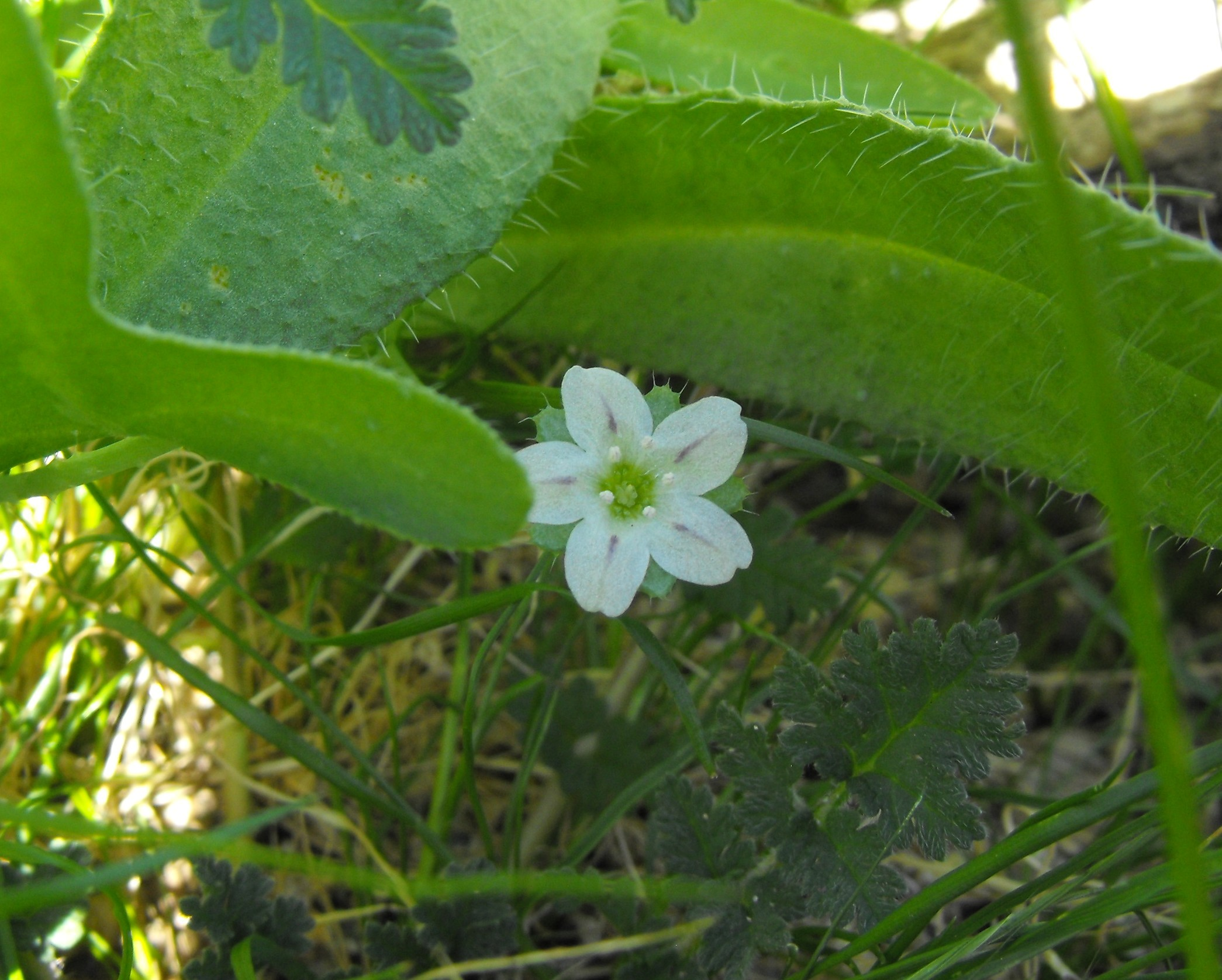 Pholistoma membranaceum in Anza Borrego Desert State Park, California, USA.